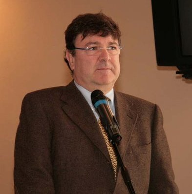 Paolo Zamboni University of Ferrara, Italy